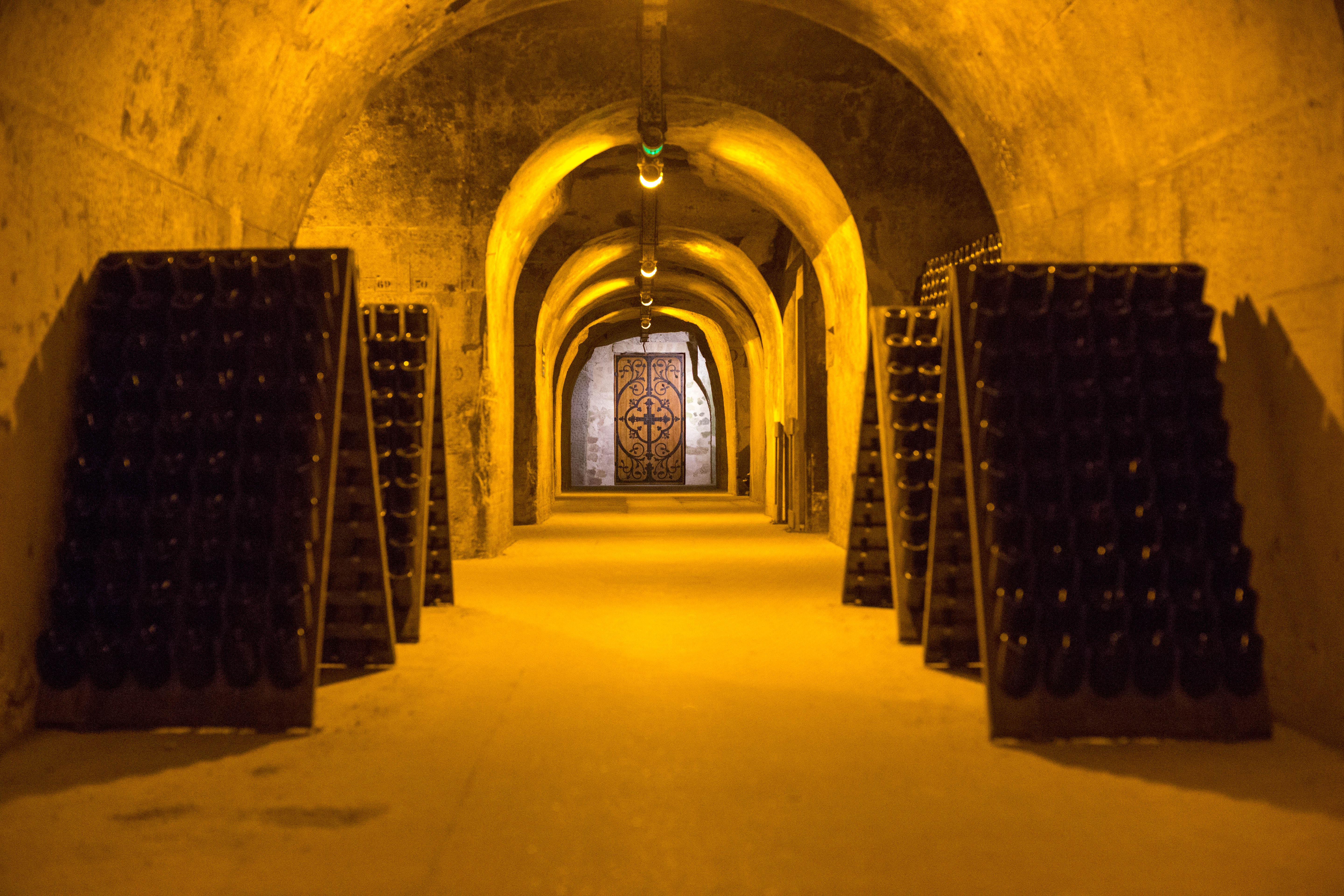 Tattinger caves